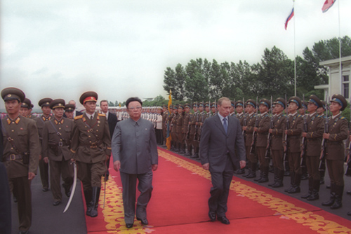 PYONGYANG. President Putin with North Korean leader Kim Jong-il during a send-off ceremony at the airport.